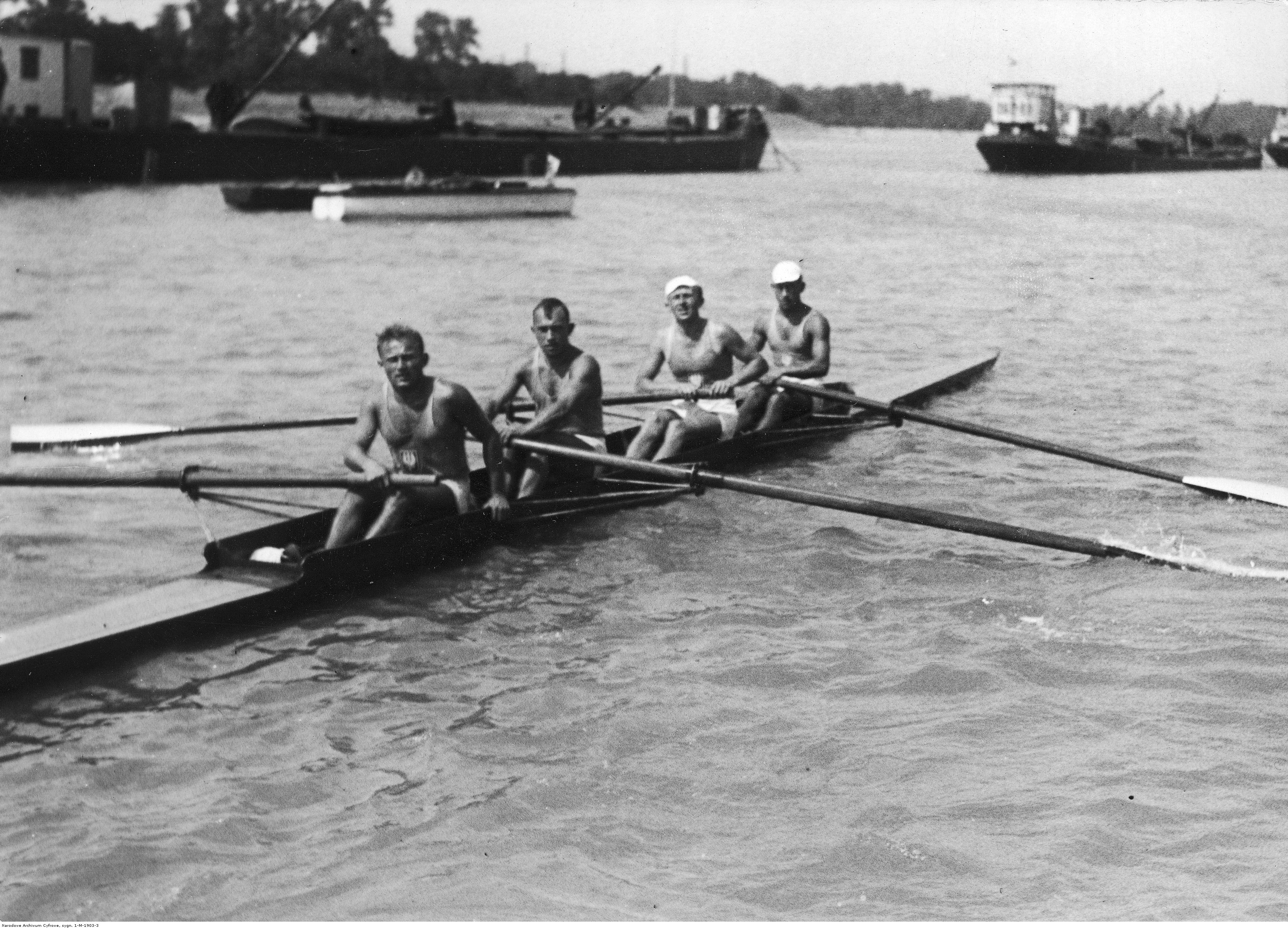 Rowing European Championships in Budapest. Polish rowers Henryk Budziński, Witalis Leporowski, Witalis Ludwiczak and Górski (from left) during the competition.